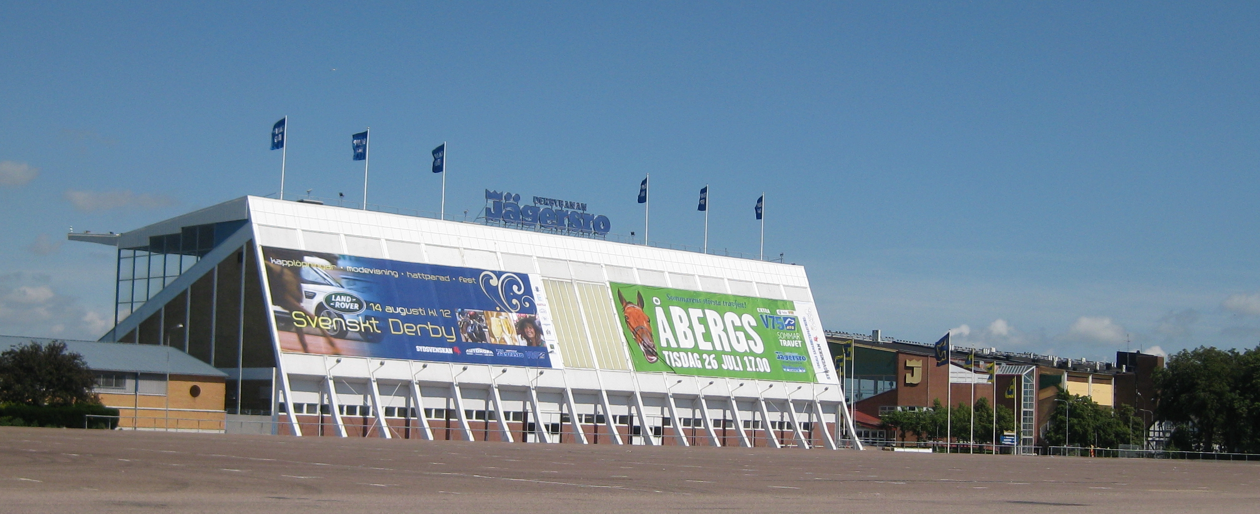 Jägersro main stands, Malmö, Sweden